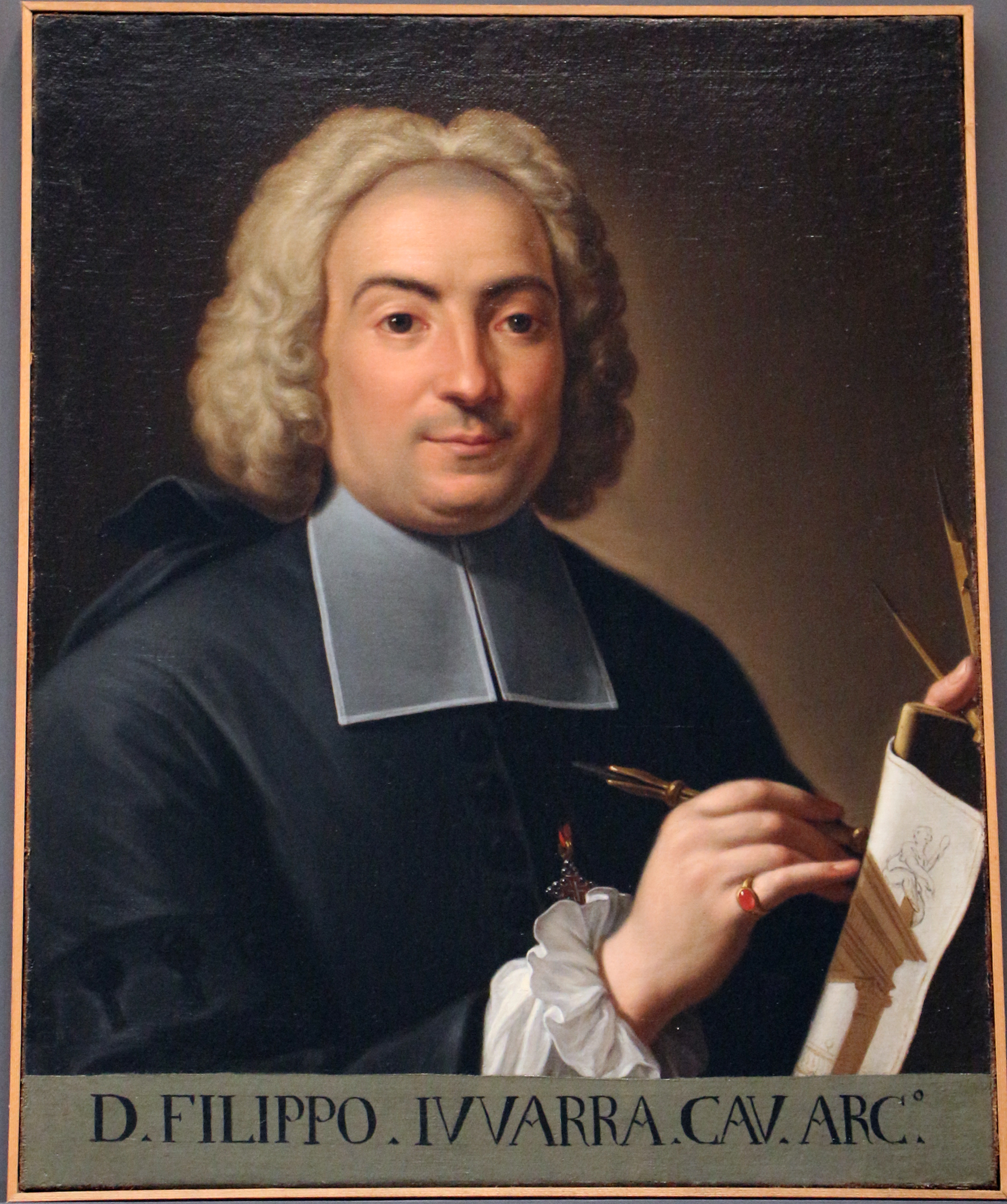 Accademia di San Luca - Gallery